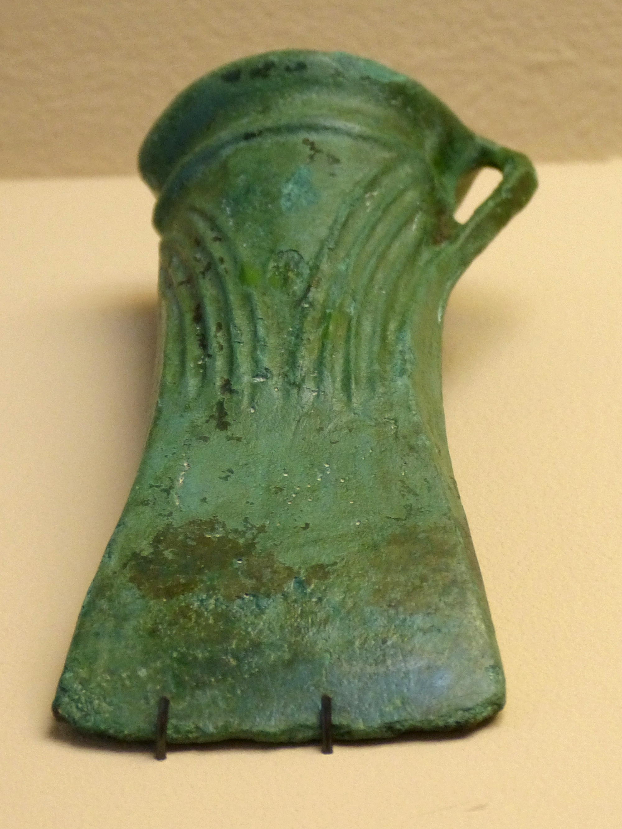 Straubing ( Lower Bavaria ). Gäubodenmuseum: Bronze axe of the Urnfield culture from a grave in Straubing. .